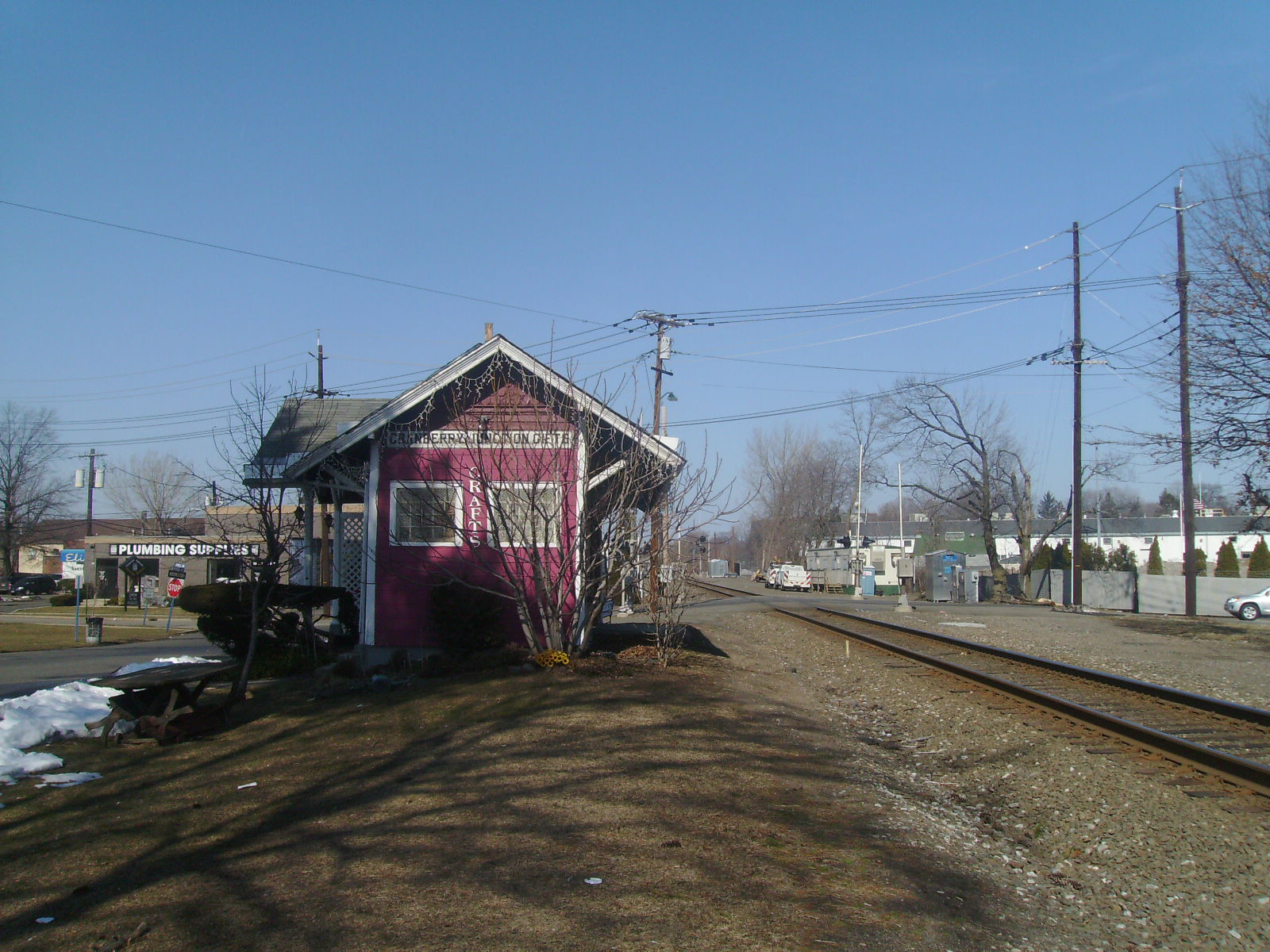 The former Fairmount Avenue station in Hackensack, New Jersey. The pink building is a gift shop, and has been since the 60s.